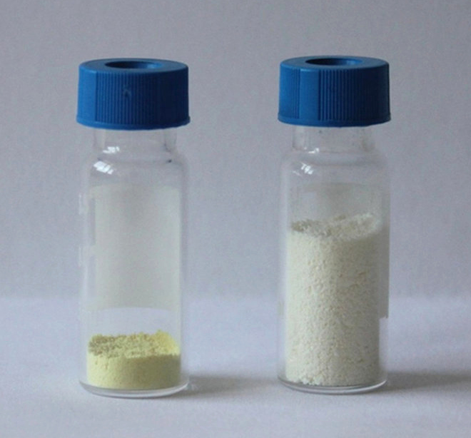 The volume comparison of 100 mg powder of bulk g-C3N4 (left) and g-C3N4 nanosheets (TECN, right).